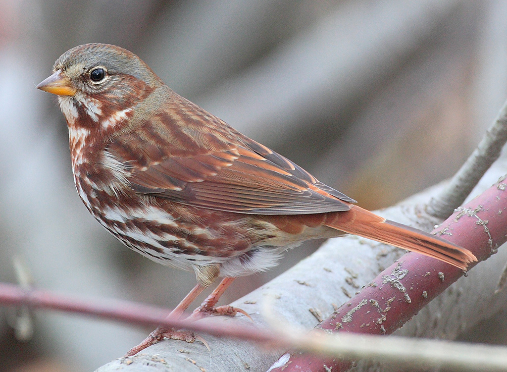 Description: Fox Sparrow (Passerella iliaca); Whitby, Ontario, Canada, 2005 November Red Fox Sparrow, probably P. i. iliaca due to location/season. Dysmorodrepanis 03:10, 27 November 2006 (UTC) Photograph: Mdf first upload in en wikipedia on 21:31, 18 November 2005 by Mdf Licence